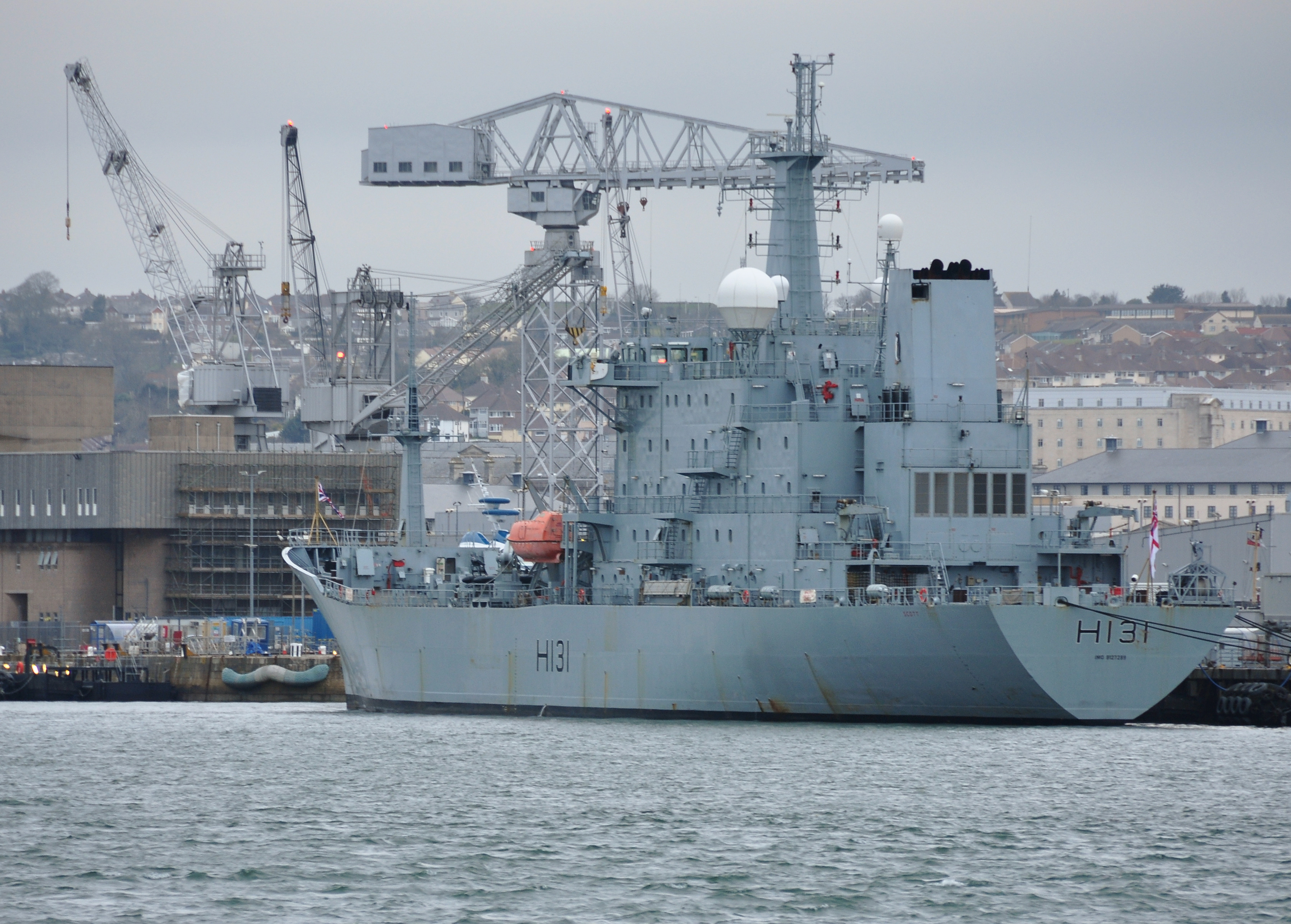 HMS Scott moored at HMNB Devonport in Plymouth, Devon.